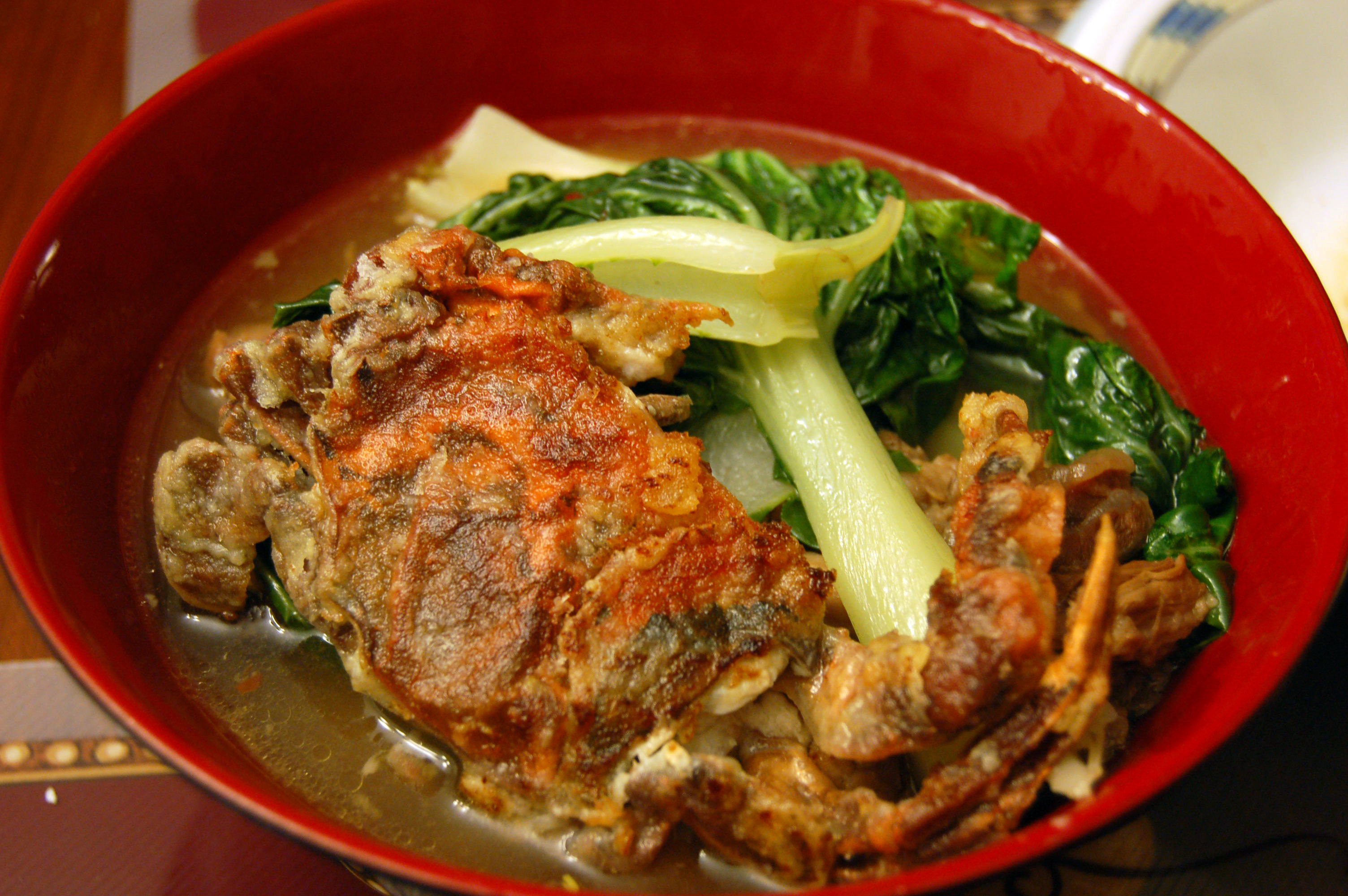 Pan fried soft shelled crab is surprisingly easy to do! 1) Dip cleaned crabs in buttermilk or half&half 2) Toss in a mixture of Korean seafood pancake mix, pepper, and chicken bouillon 3) Pan fry for 1-2 minutes on each side